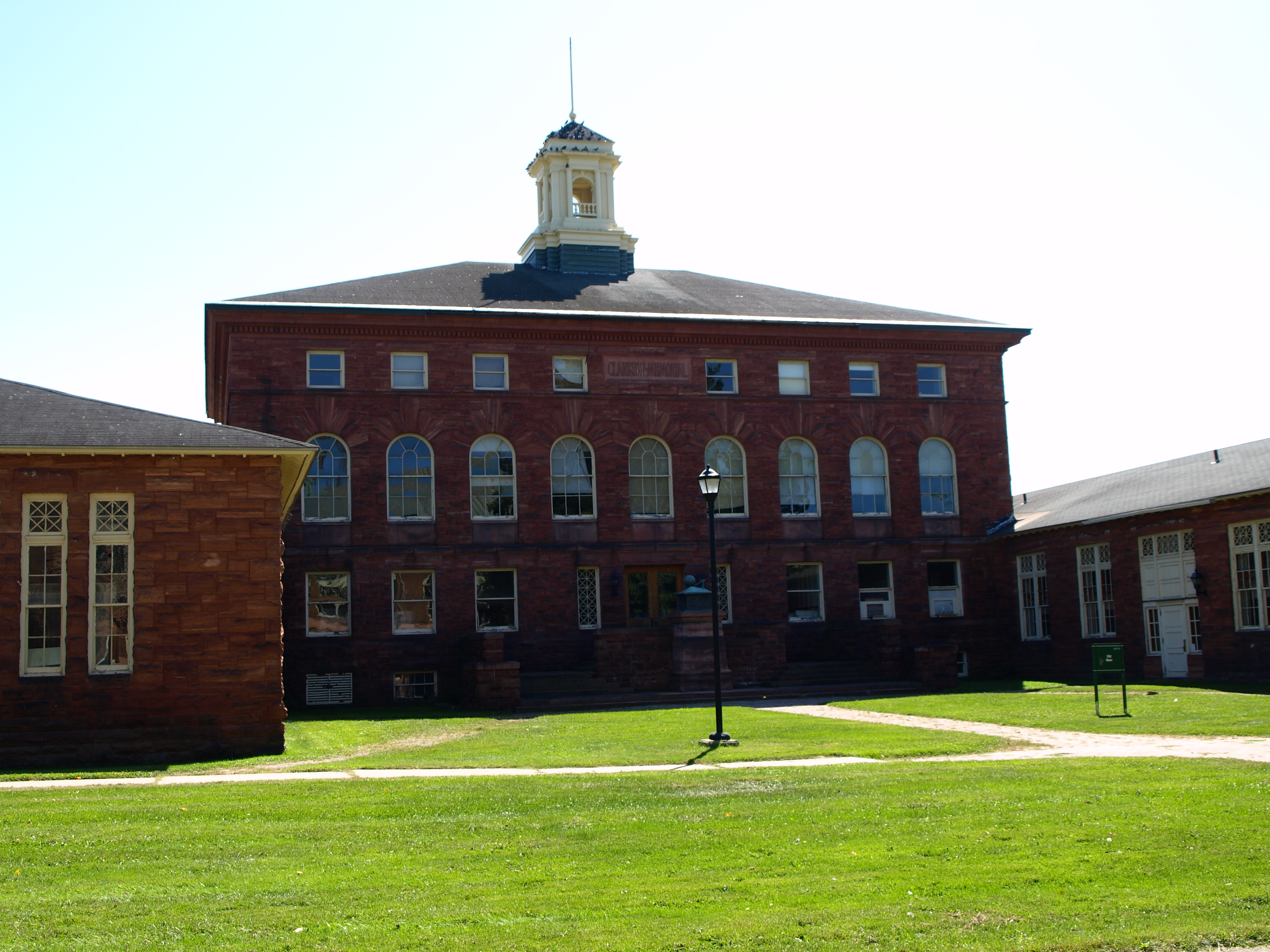 Recent photograph of Clarkson University's Old Main